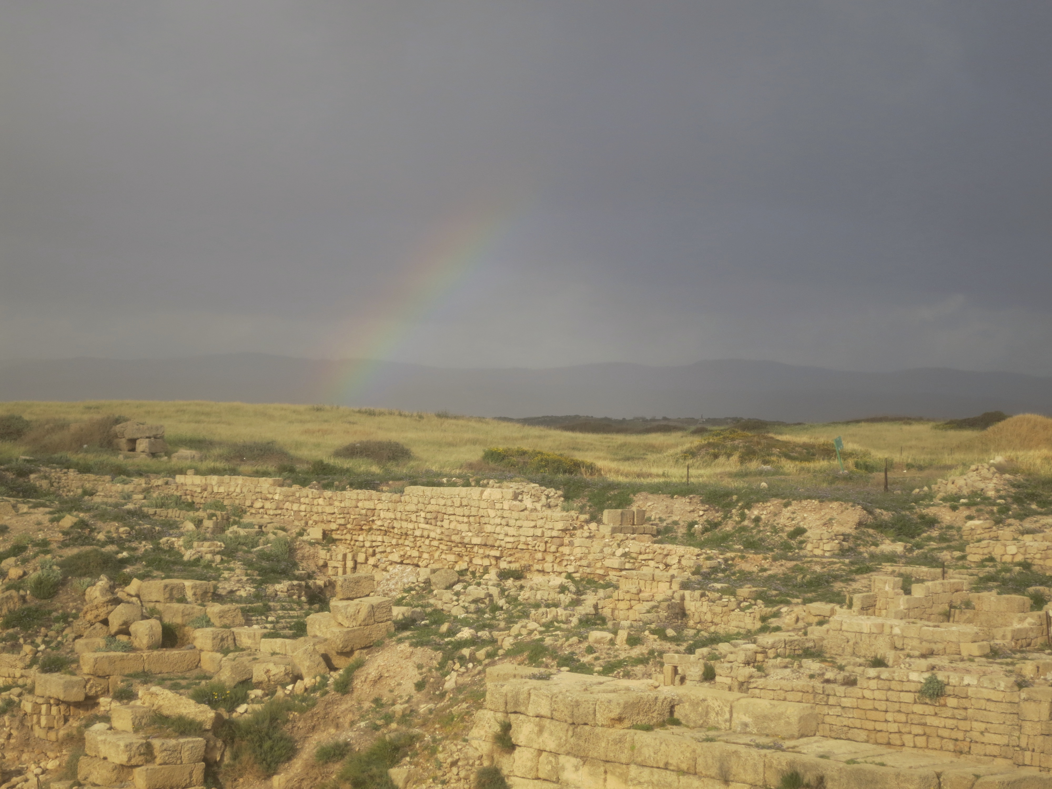 Archeological remains at Tel Dor, Israel